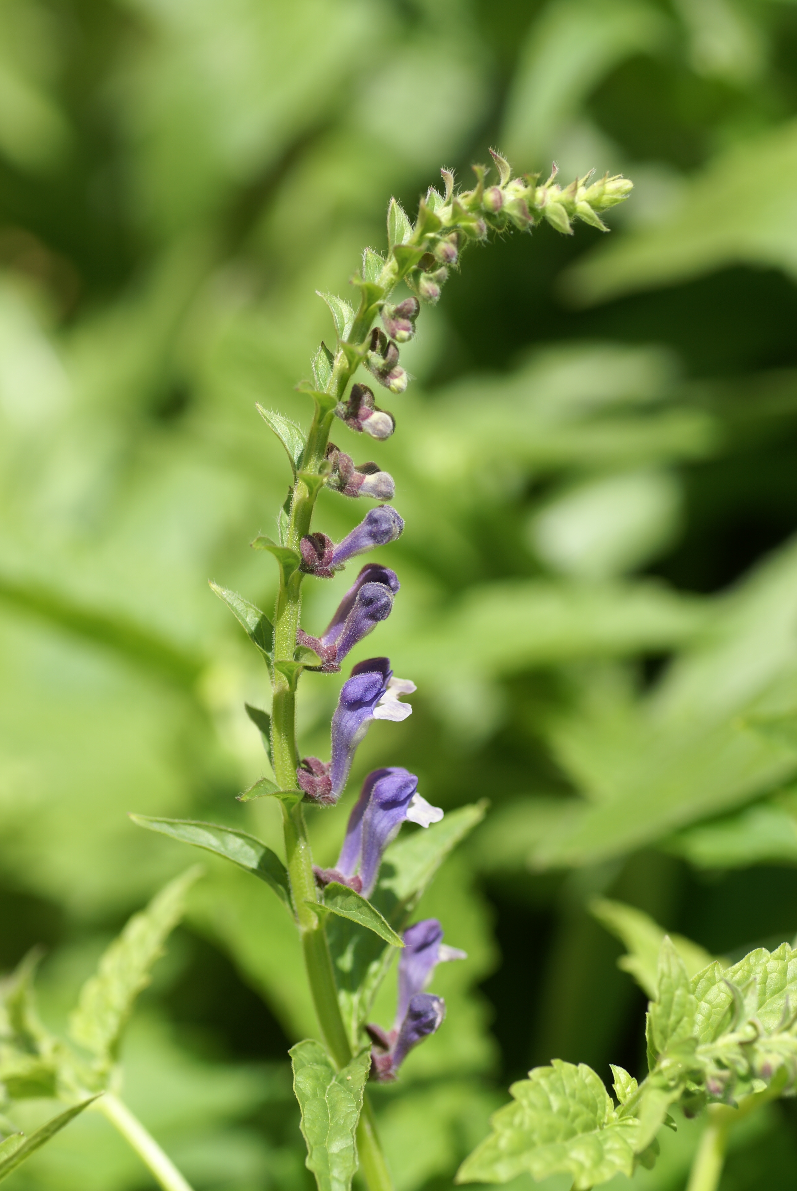 Plant species Scutellaria altissima in Botaniska trädgården in Uppsala, Sweden